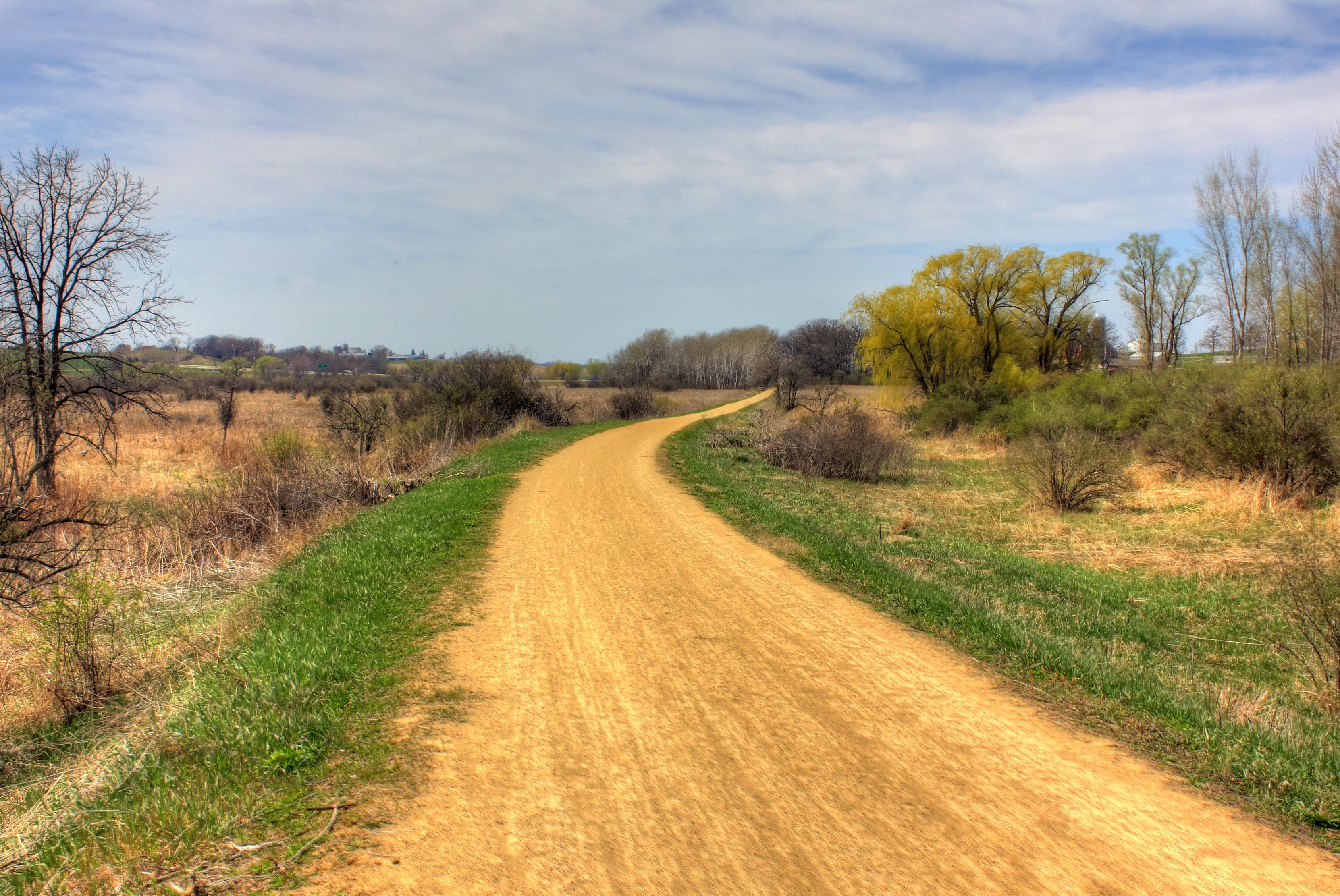 Military Ridge State Trail is a hiking/cycling/snowmobile trail that starts around fitchburg and goes out to dodgeville. Its a total of 40 miles and has many sc The curving path of the military ridge trail